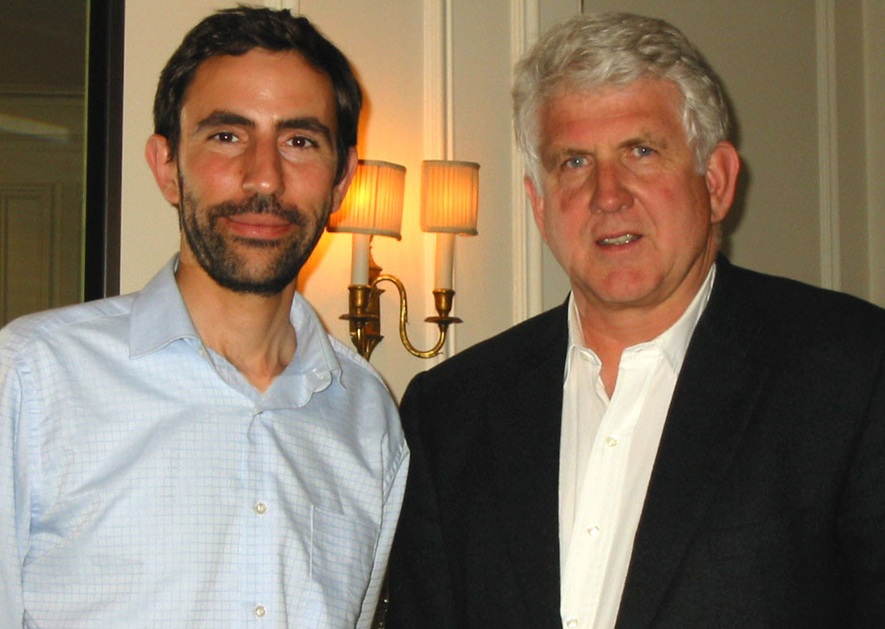 during his personal interview to record his voice at his home in Boston